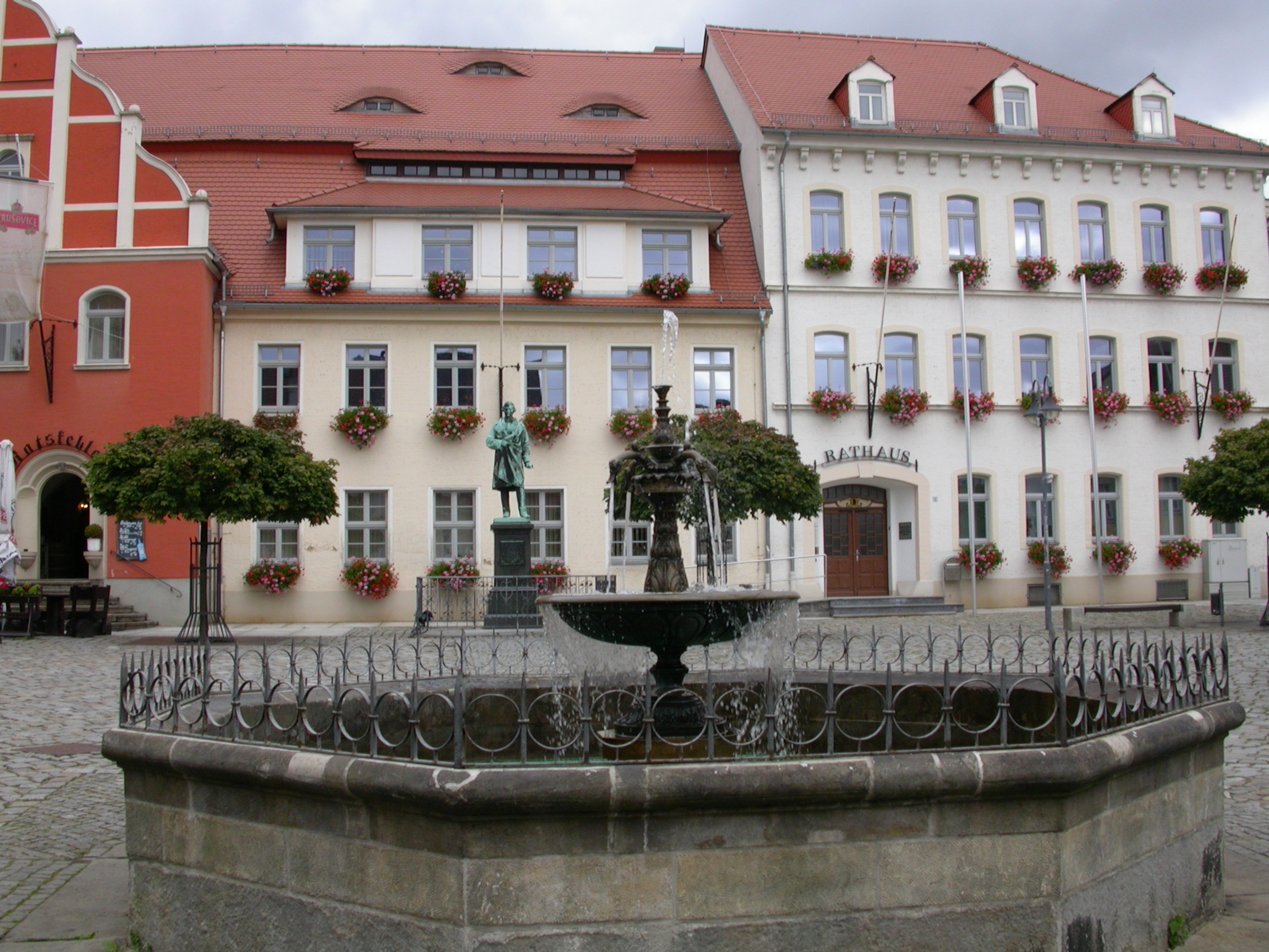 Townhall and marketplace in Pulsnitz.